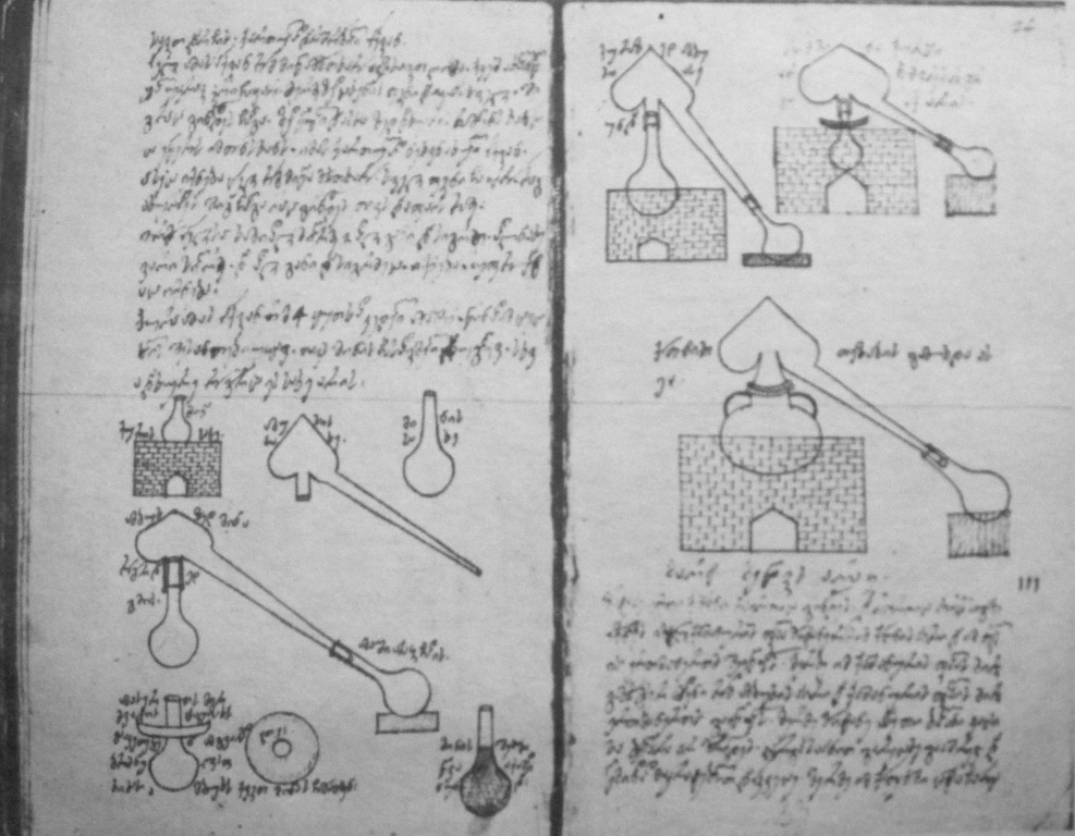 A folio from the chemistry book composed by the Georgian king Vakhtang VI